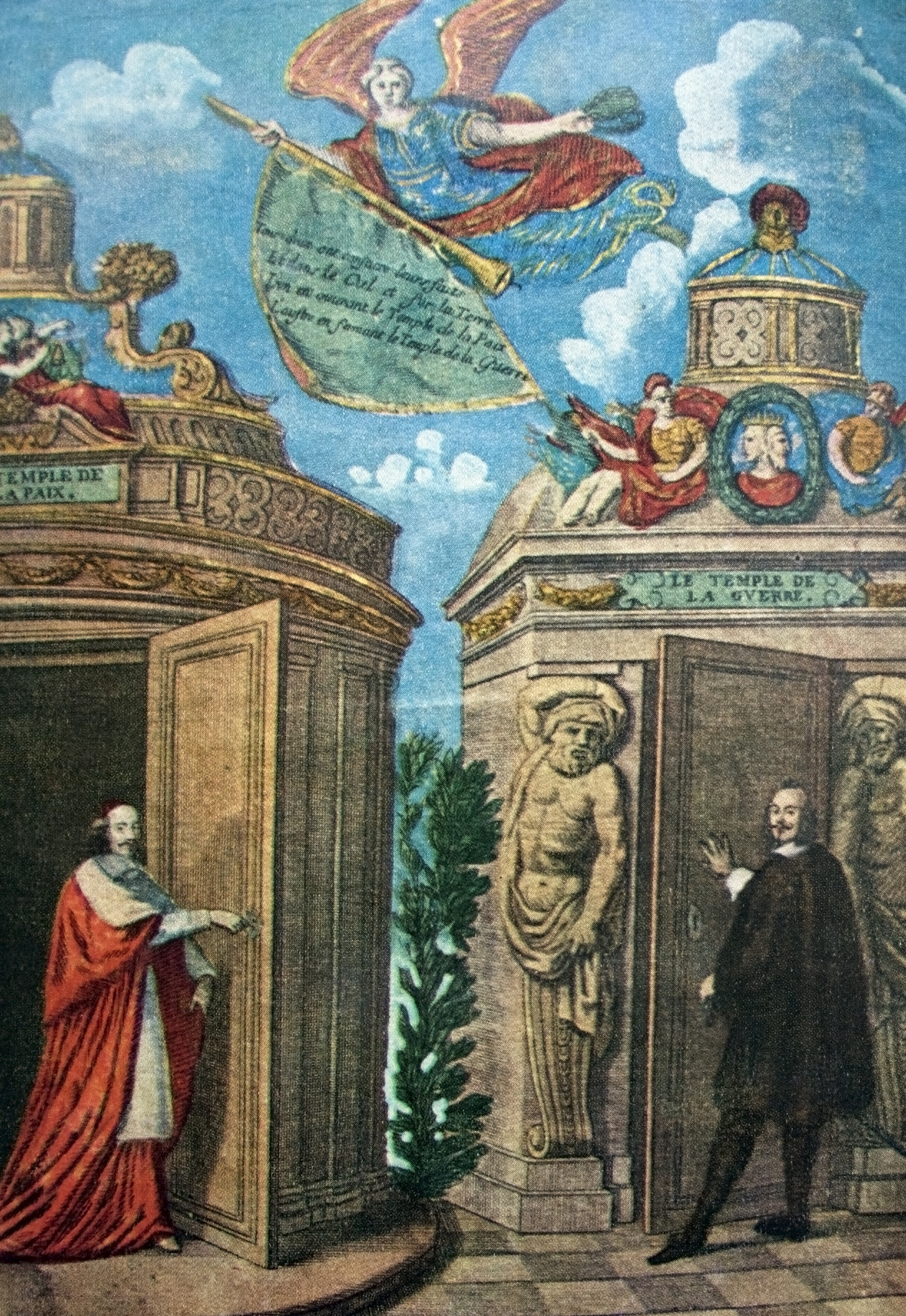 Mazarin Opens the Temple of the Peace - allegory in honour of the peace of the Pyrenees